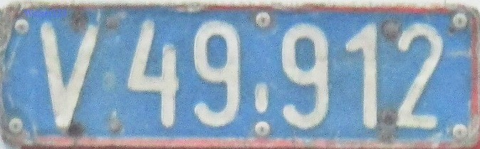 Austria dealer plate Vorarlberg 1947-1990